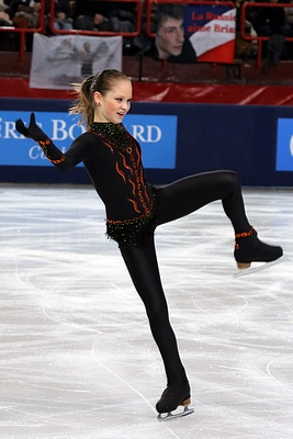 Yuliya Lipnitsкaya at the Trophee Eric Bompard 2012